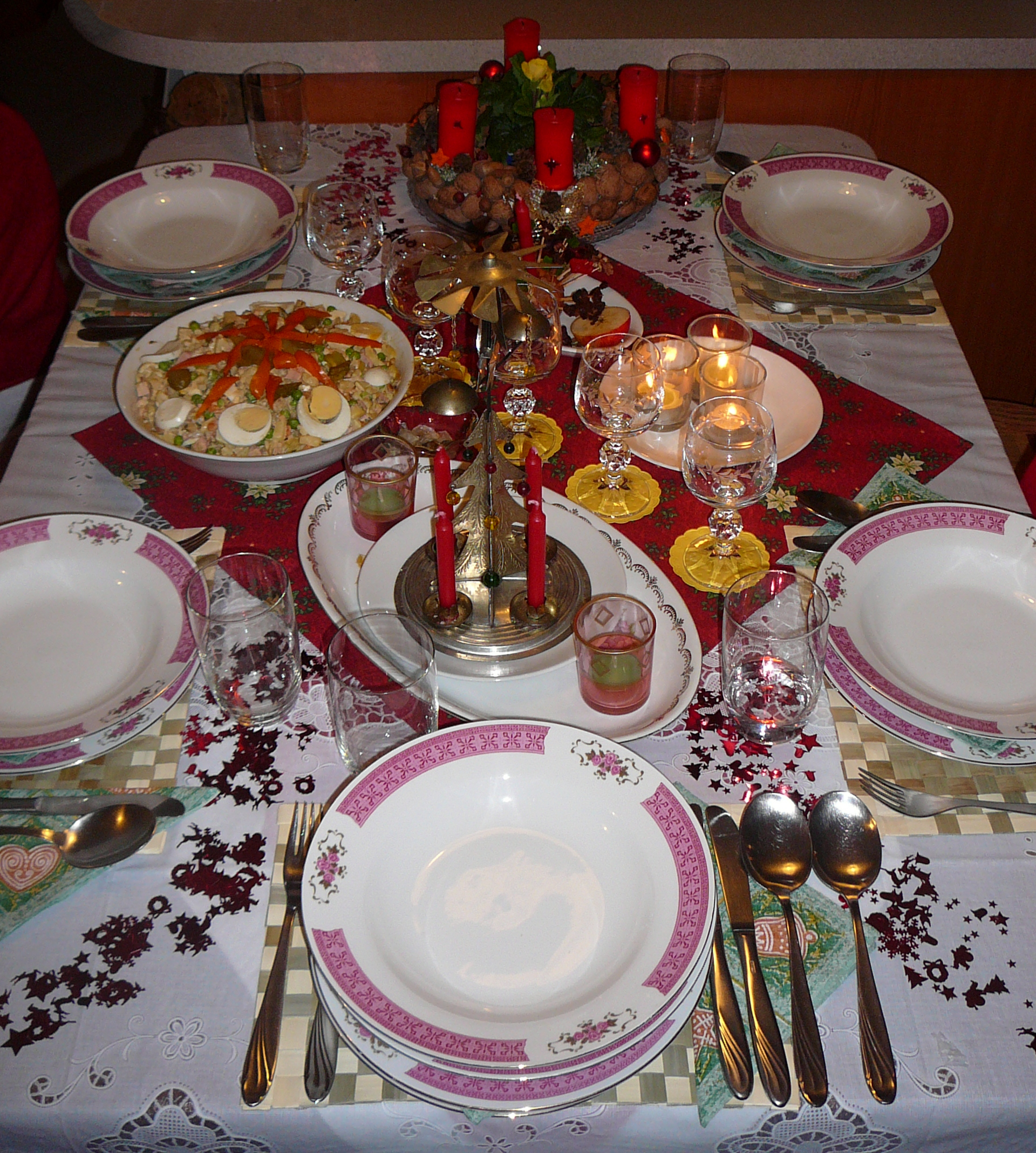 Christmas table